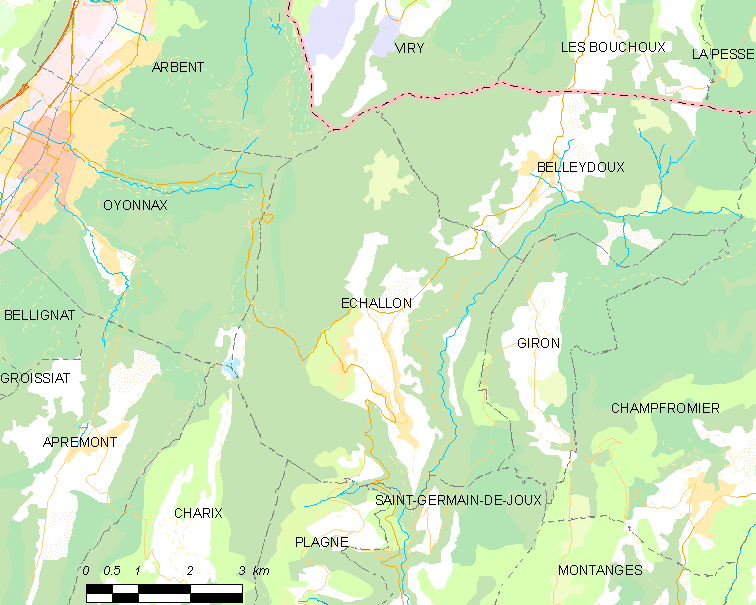 Map of French commune: Échallon Map commune FR insee code 01152.png